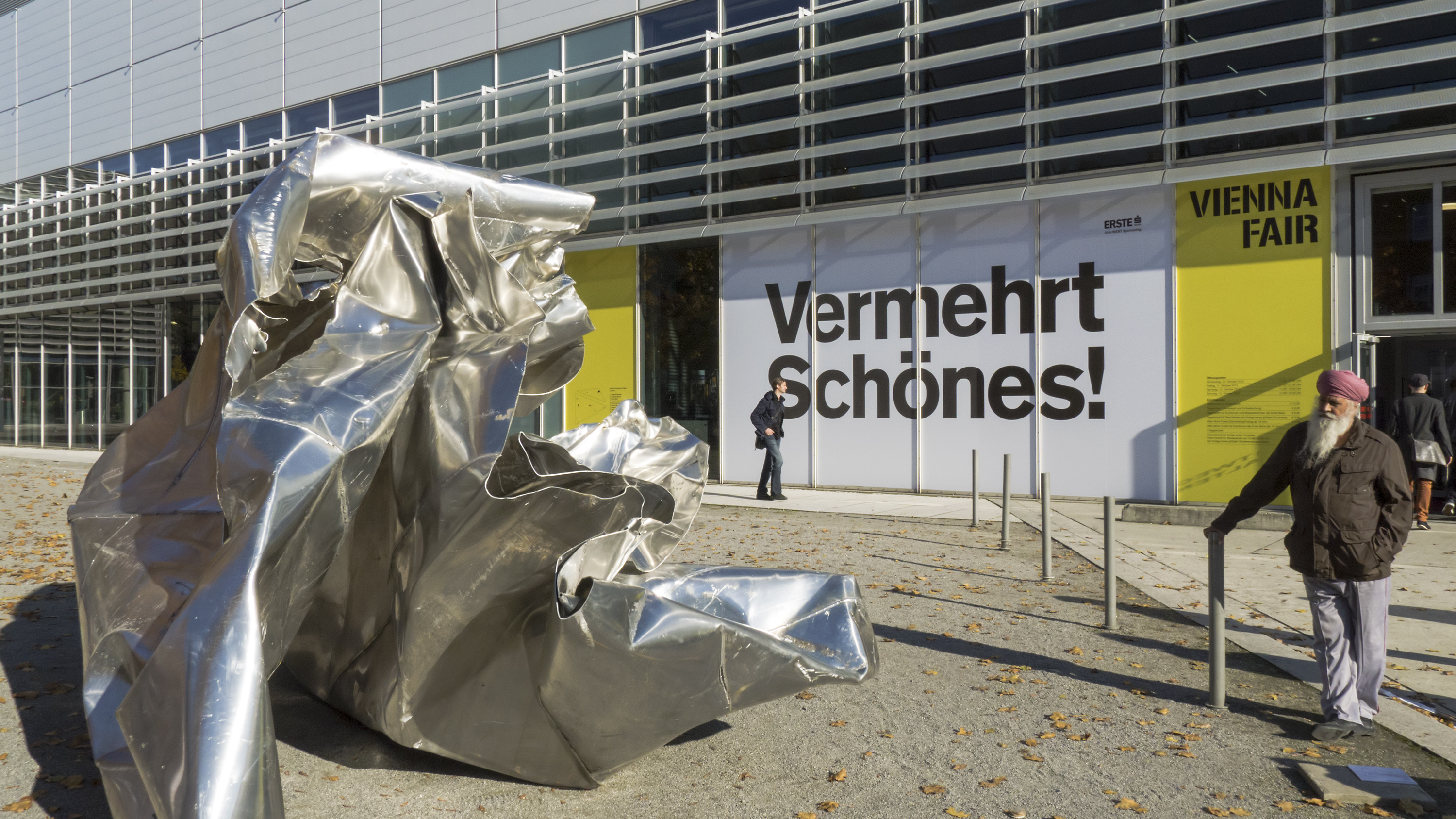 Exposition Viennafair 2013 at Messe Wien in Vienna 2